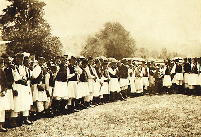 a photograph taken in Zlatibor in 1900s